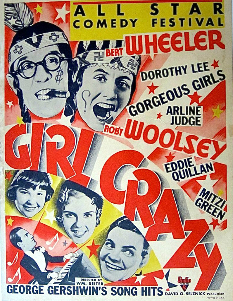 Window poster for the 1932 film Girl Crazy.